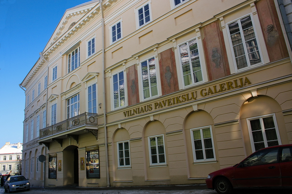 Art Museum of Lithuania. The Art Gallery in Chodkiewicz Palace lt: Chodkevičių rūmai